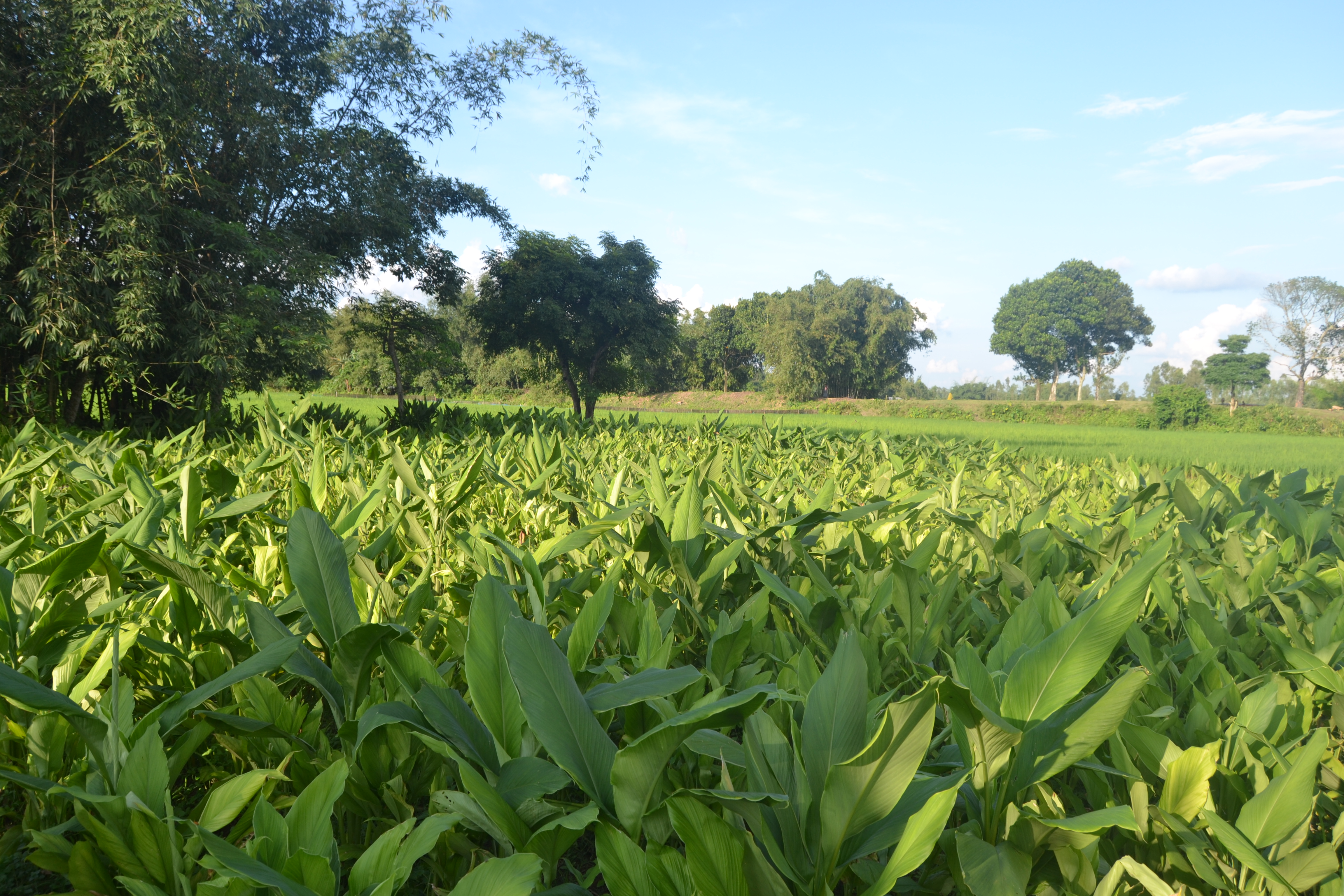 Dharmapaler Garh